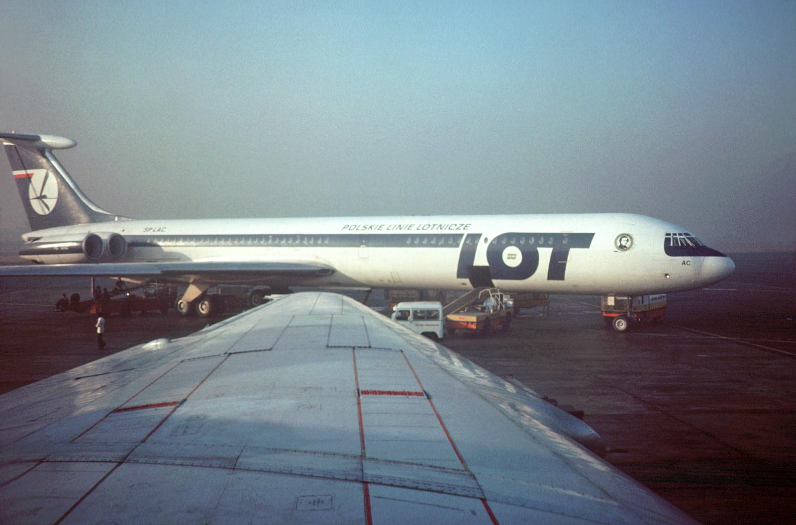 Photograph from a CSA Czechoslovak Airlines Ilyushin IL-62 in December 1978 at Cairo airport in Egypt. CSA looked after their all economy passengers. We had Russian caviar and champagne soon after take-off!